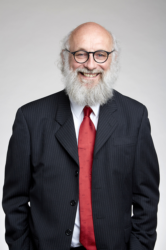 Keith John Beven FRS (born 23 July 1950) is a British hydrologist who is Distinguished Professor Emeritus in Hydrology at Lancaster University. Attribution: The Royal Society